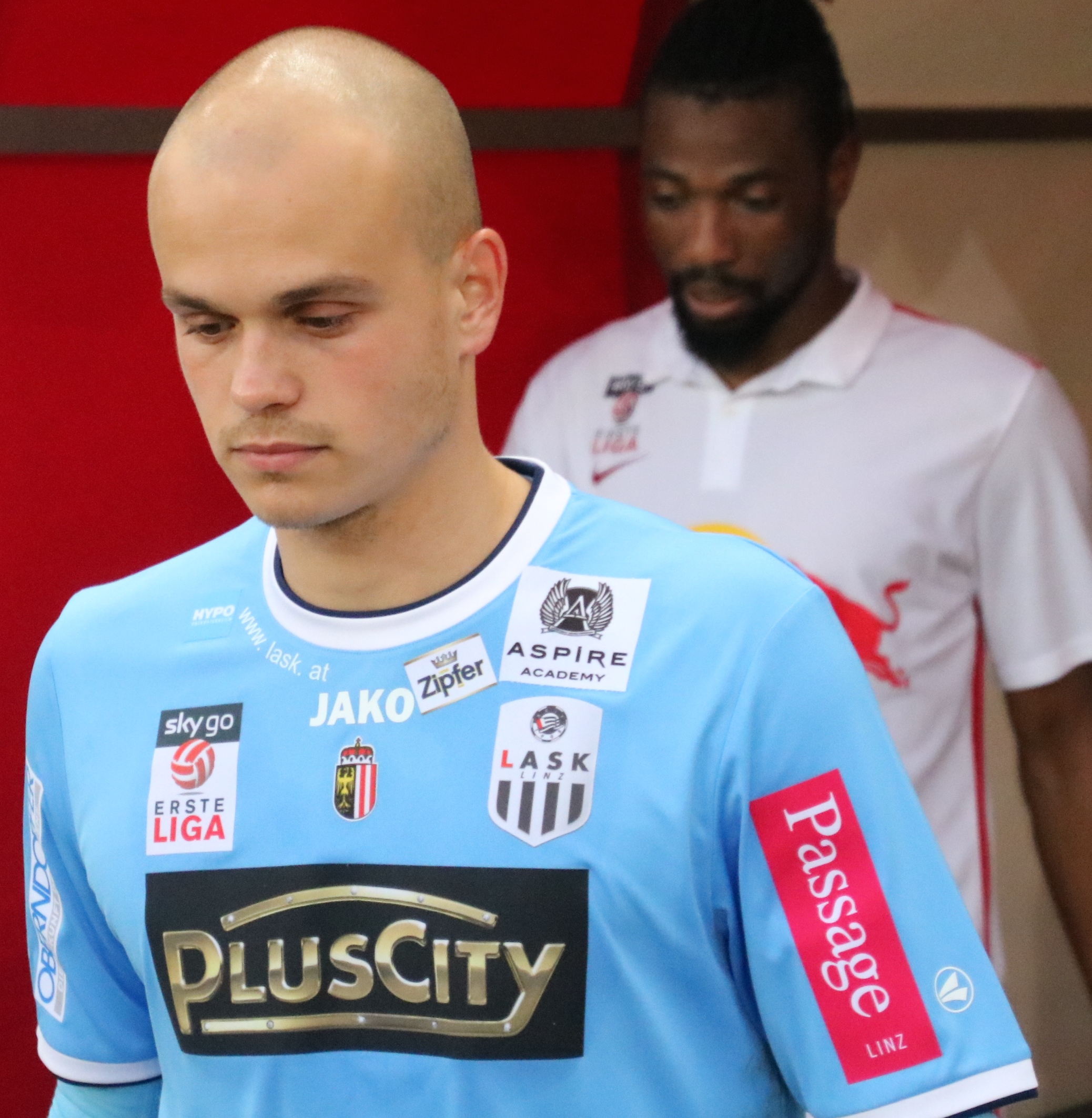 league match Austria 2nd league